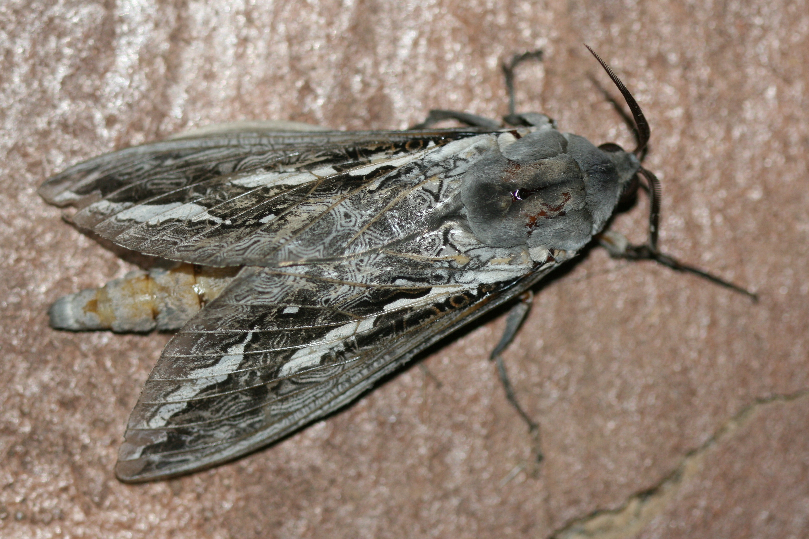 Ghost Moth (Trictena atripalpis) near Toowoomba, Queensland, Australia. Photographed on 2 April 2009.